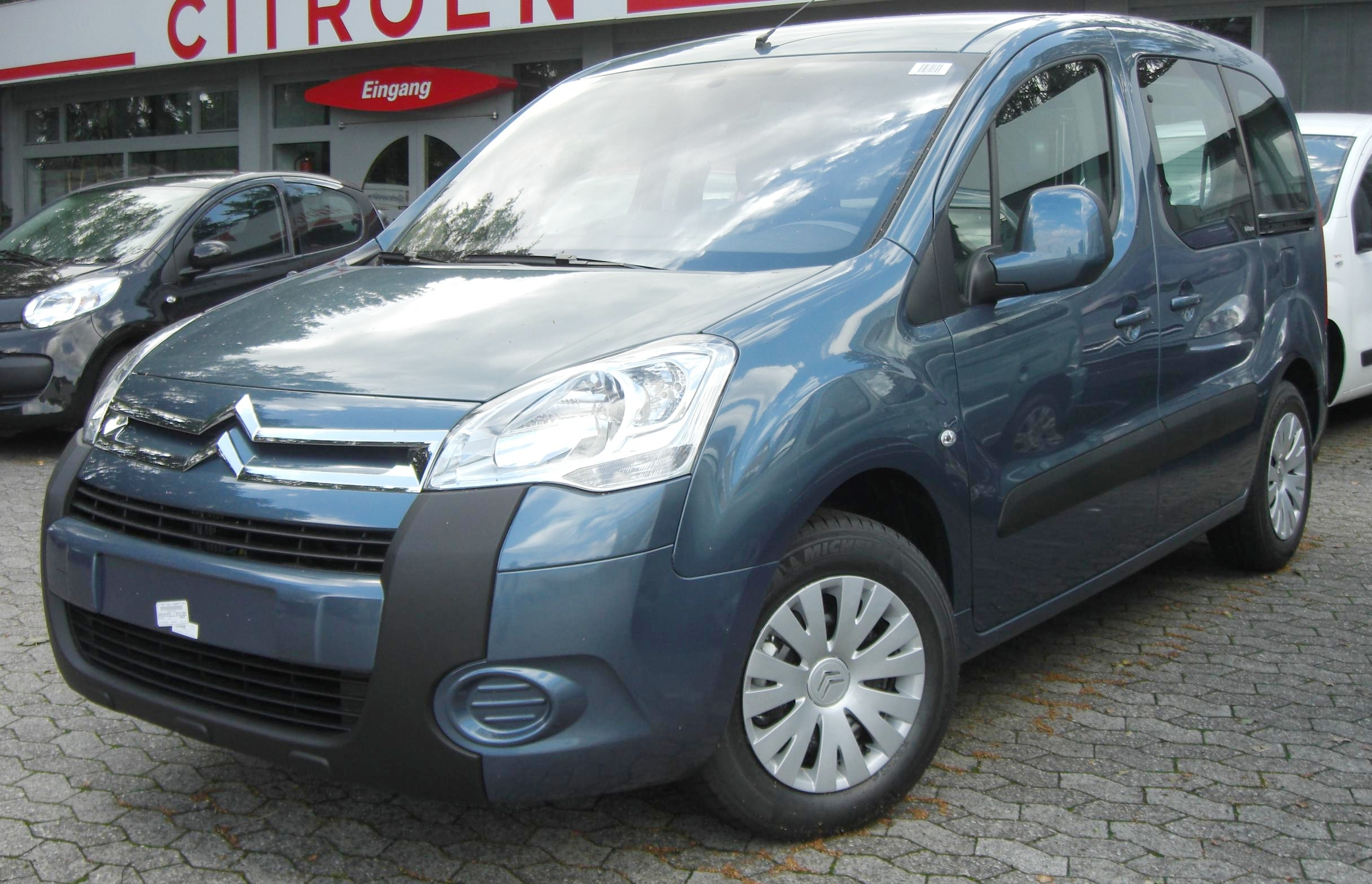 Citroën Berlingo II